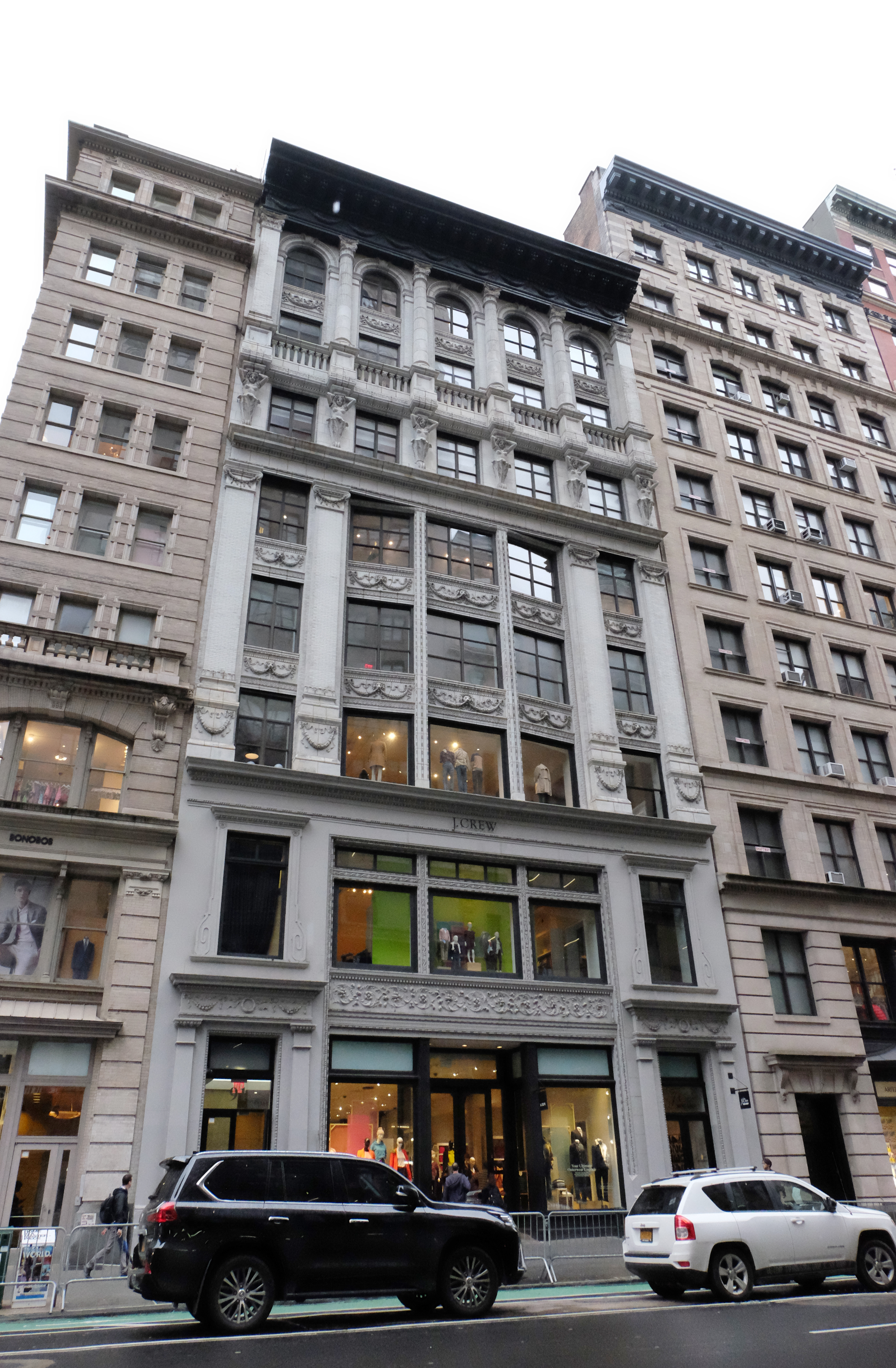 91-93 Fifth Avenue is an eight-story Beaux-Arts building in the Ladies' Mile Historic District of New York City, designed by Louis Korn for Samuel and Henry Corn and built between 1895-96.